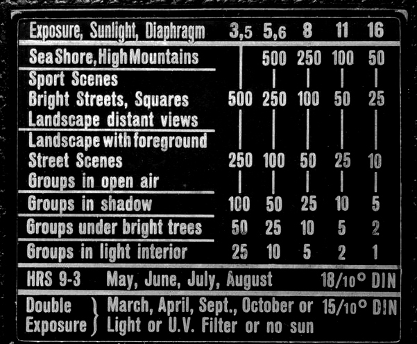 Exposure guide plate at the back of Rolleiflex TLR